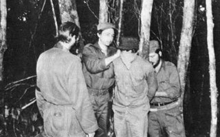 Raul Castro (second from left) is shown blindfolding a man to be shot by firing squad. Oriente Province, Cuba, 1958